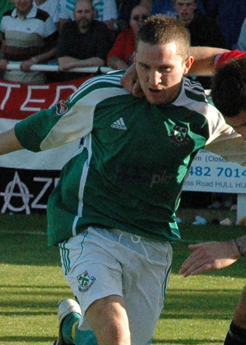 Russell Fry